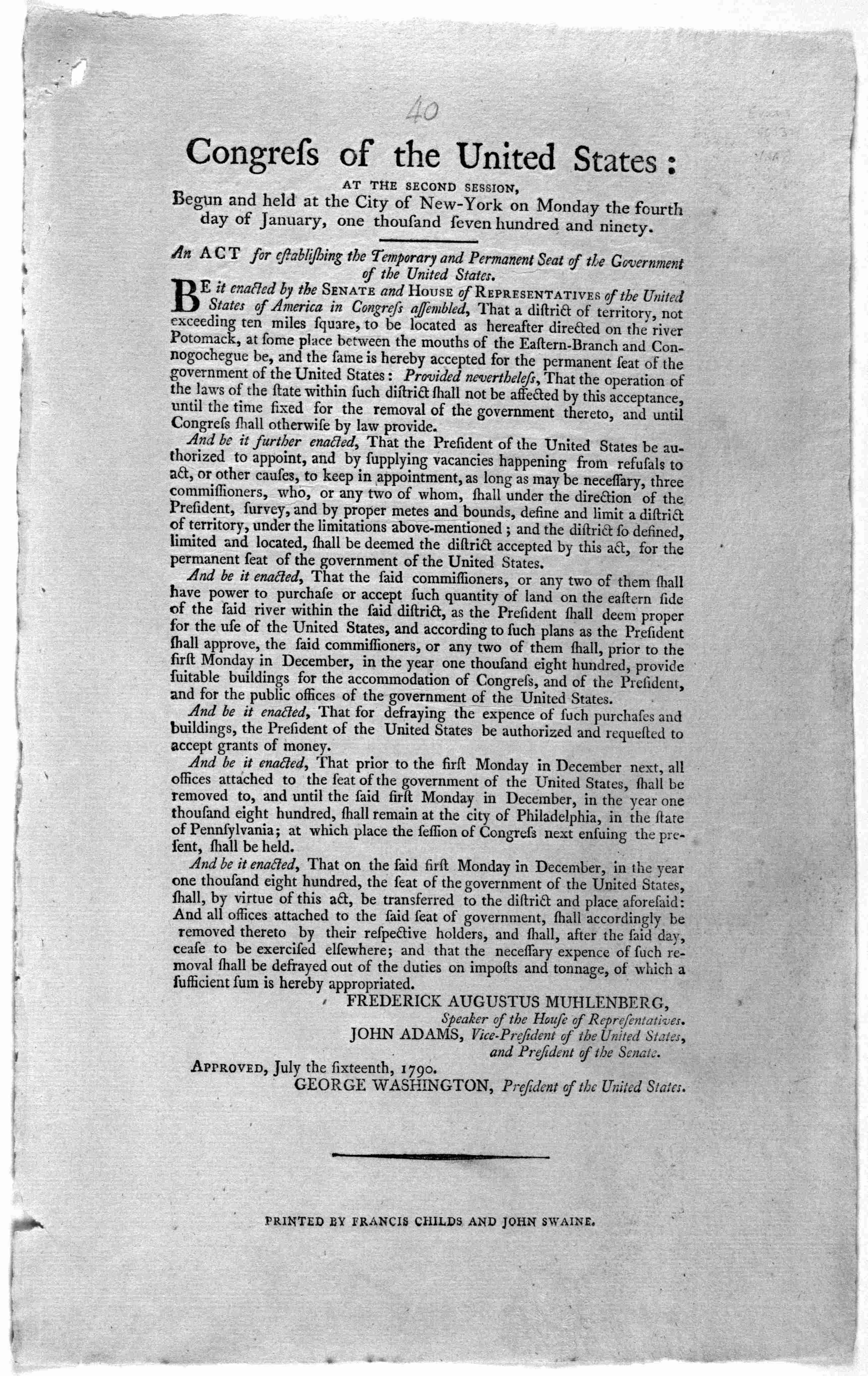 Text of the Residence Act of 1790, which established the location of the U.S. Capital along the Potomac River, along with provisions that the Federal government would assume states' debts incurred during the American Revolutionary War.